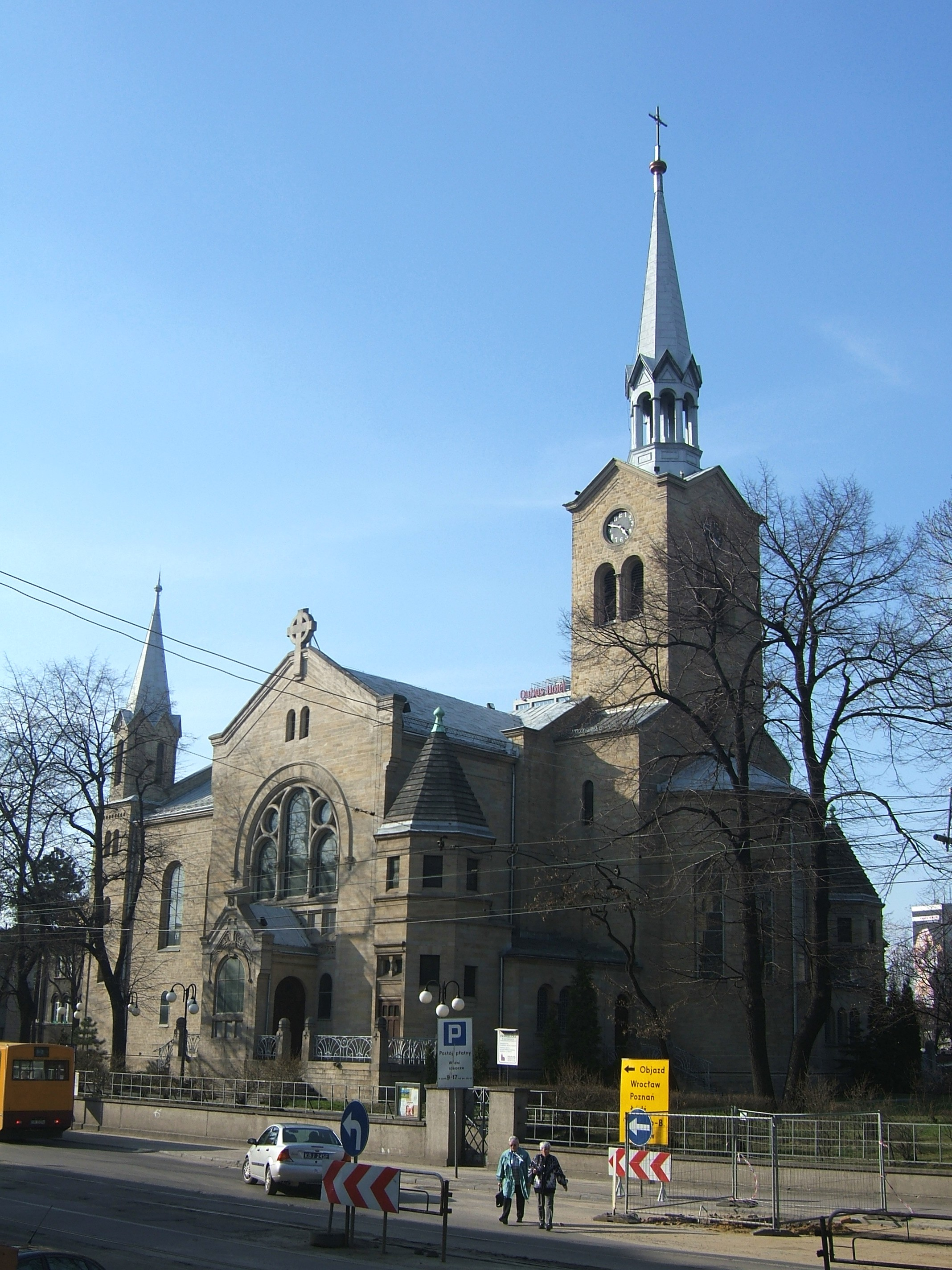 Transept (1899 - 1902) of the protestant church in Katowice. The tower and the main nave were built 1856-1858.